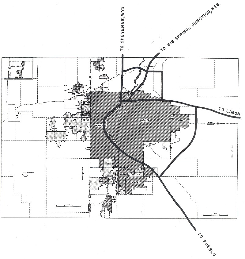 Interstates in today's terms I-25 I-70 east of I-25 I-76 I-225 I-270